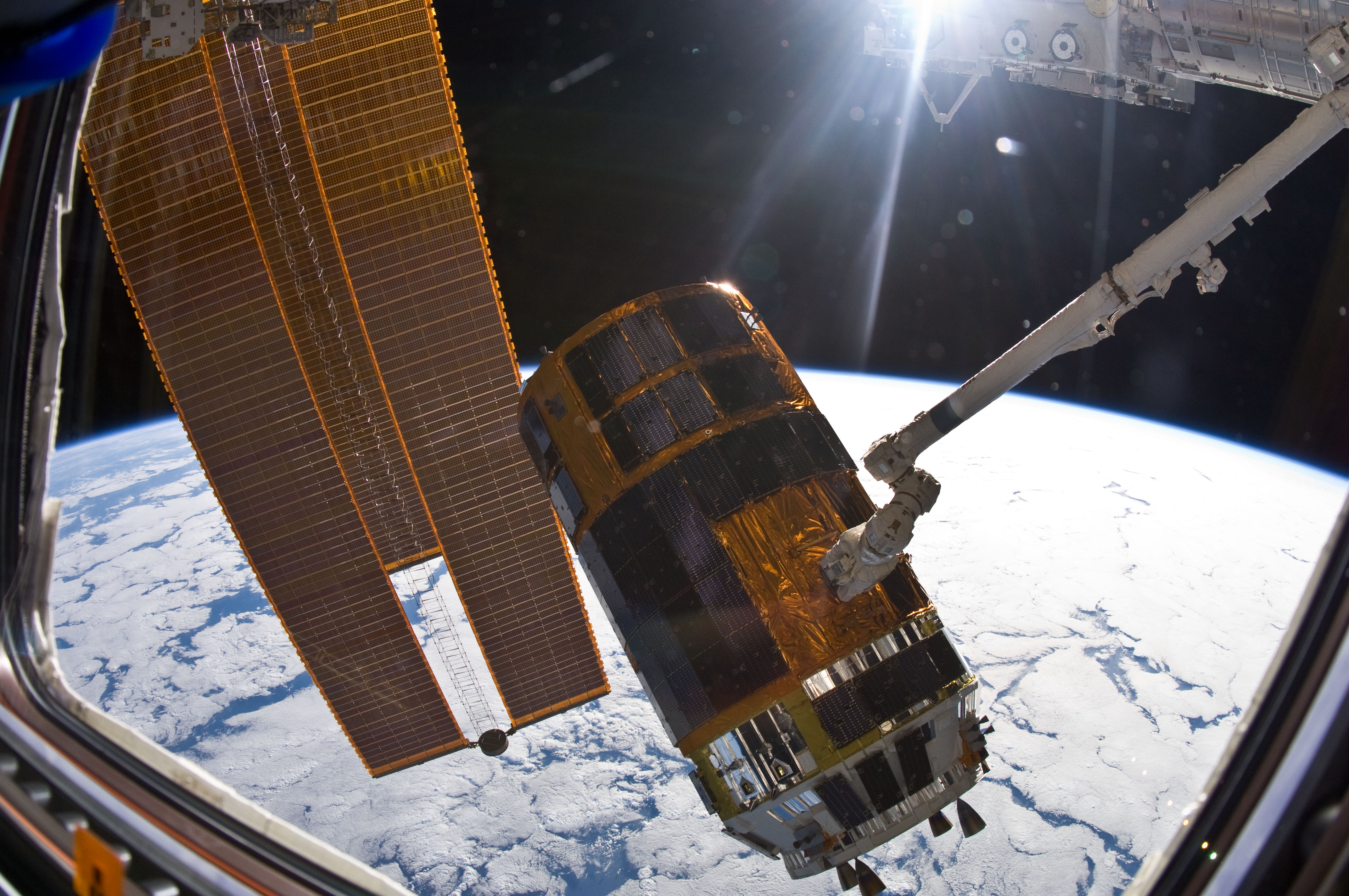 In the grasp of the International Space Station's Canadarm2, the Japanese Kounotori2 H-II Transfer Vehicle (HTV2) is relocated from the Harmony node nadir port to Harmony's zenith port. NASA astronaut Catherine (Cady) Coleman and European Space Agency astronaut Paolo Nespoli, both Expedition 26 flight engineers, moved the HTV2, operating the station's robotic arm from the controls inside the Cupola. A cloud-covered part of Earth and the blackness of space provide the backdrop for the scene.